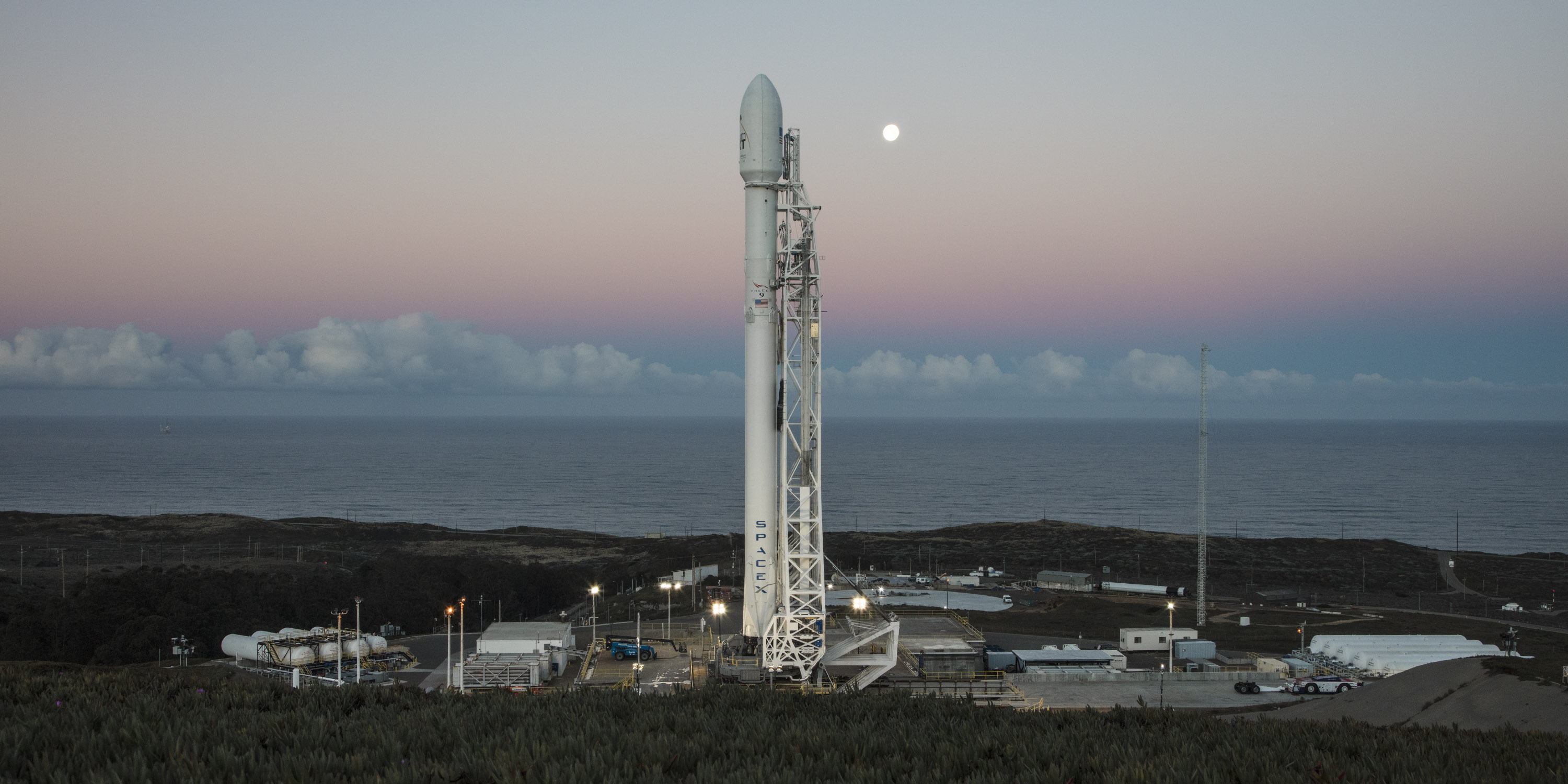 Falcon 9 with ten Iridium NEXT communications satellites at Space Launch Complex 4E at Vandenberg Air Force Base, California.